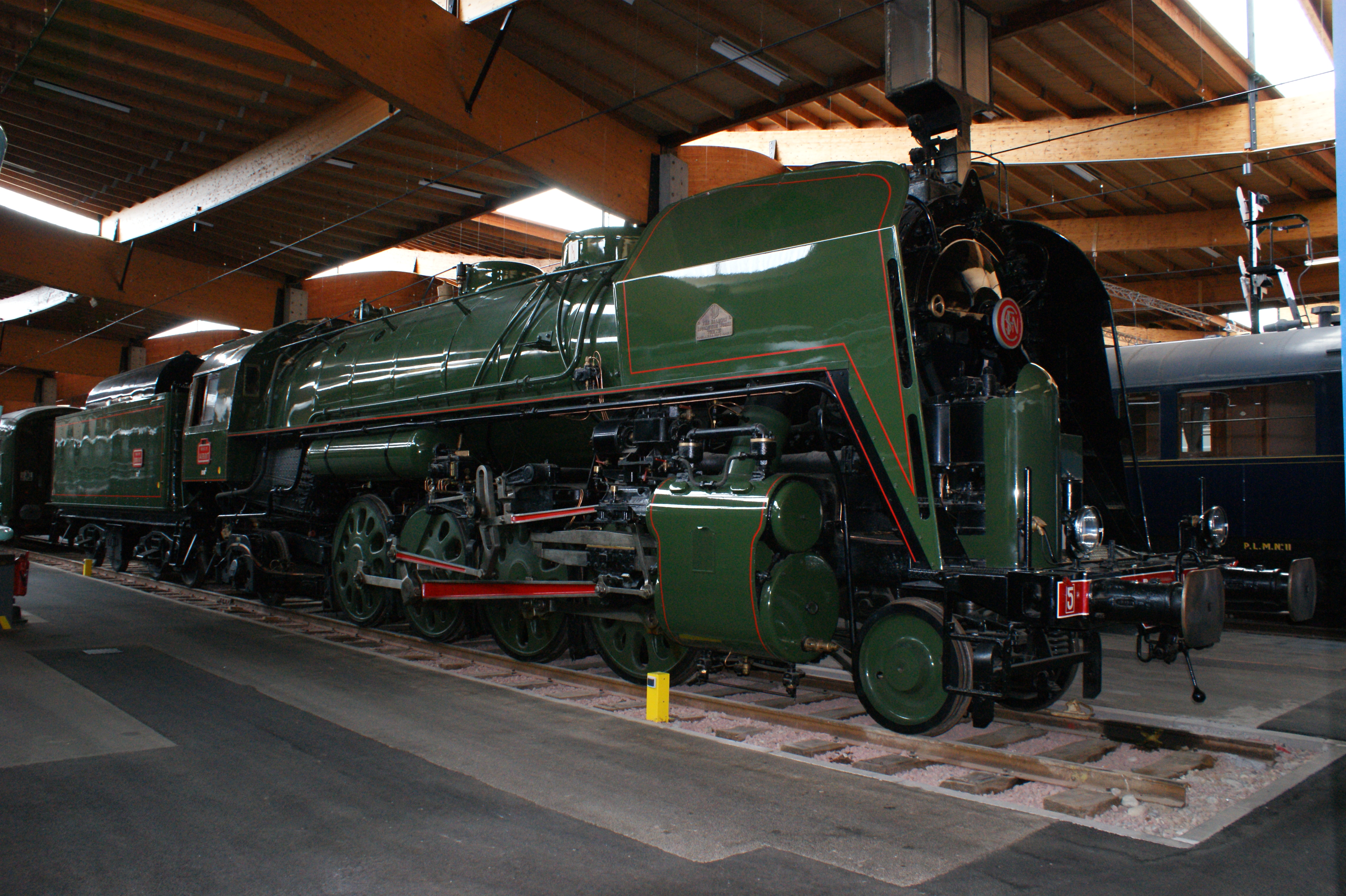 SNCF "141R" 2-8-2 No.231R.1187 (Baldwin 72272/1945). The 141R's were built in the USA & Canada to get the French Railway system back on its feat after WWII when many French locos were out of service because of their sophistication and high maintenance needs. Although crude and inefficient by French standards (Chapelon increased their efficiency by 20% with only minor modifications before they entered service), their ability to keep on going with virtually no maintenance and under the roughest of conditions over appalling track with very poor quality coal and not needing the high driving and firing skills that French engines normally required endeared them to French crews - surprisingly! Tellingly, they were the last French steam engines in service. Czech 4-8-2s built in the 1950s were based on these and carried a very similar boiler. 03/09.